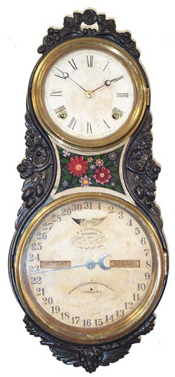 Ithaca Calendar Clock Co. "Large Iron Case", ca 1866, using the Hubbell 30 day pendulum movement.